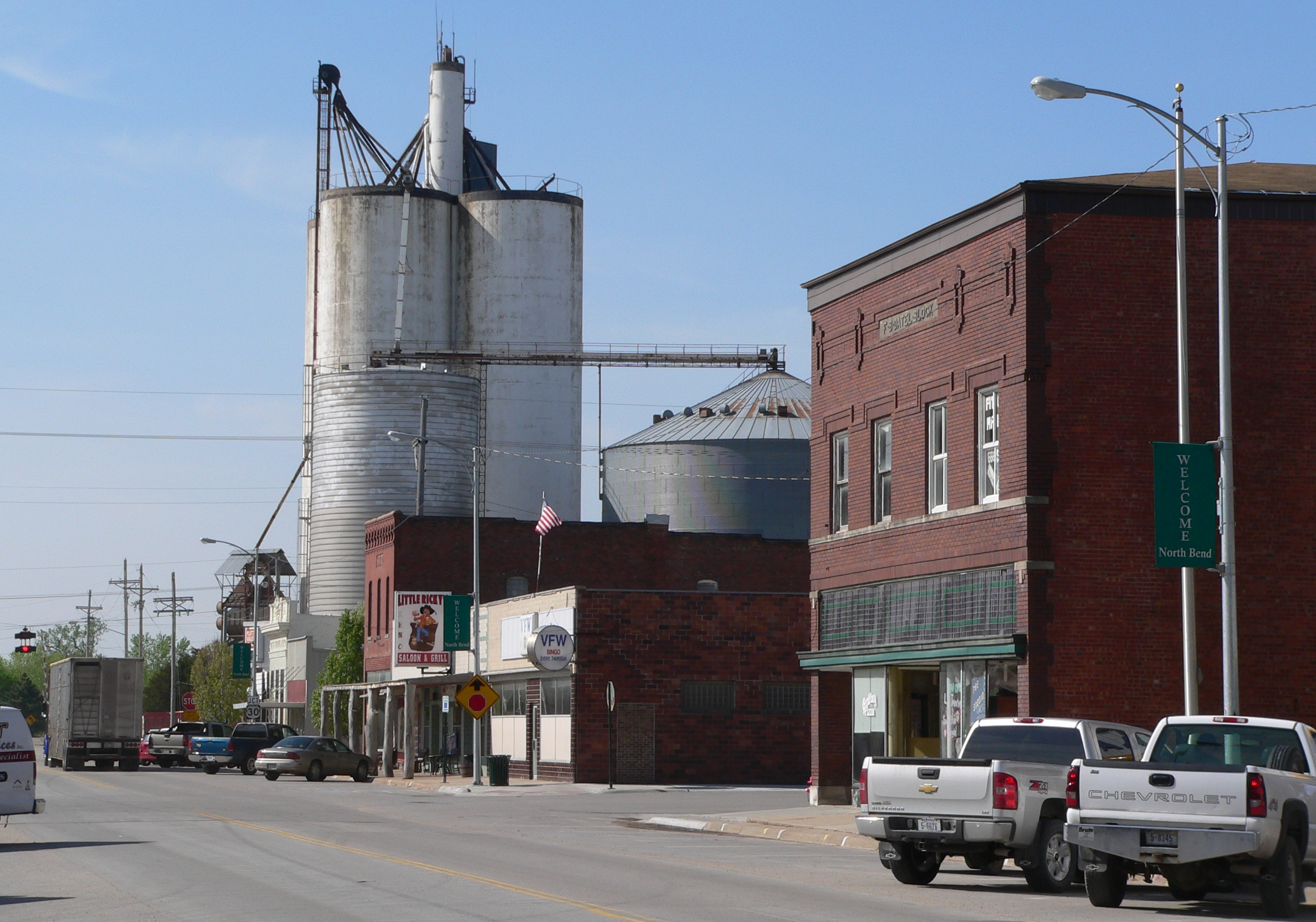 West side of Main Street in North Bend, Nebraska: facing south-southwest from a point on Main between 7th and 8th Streets.